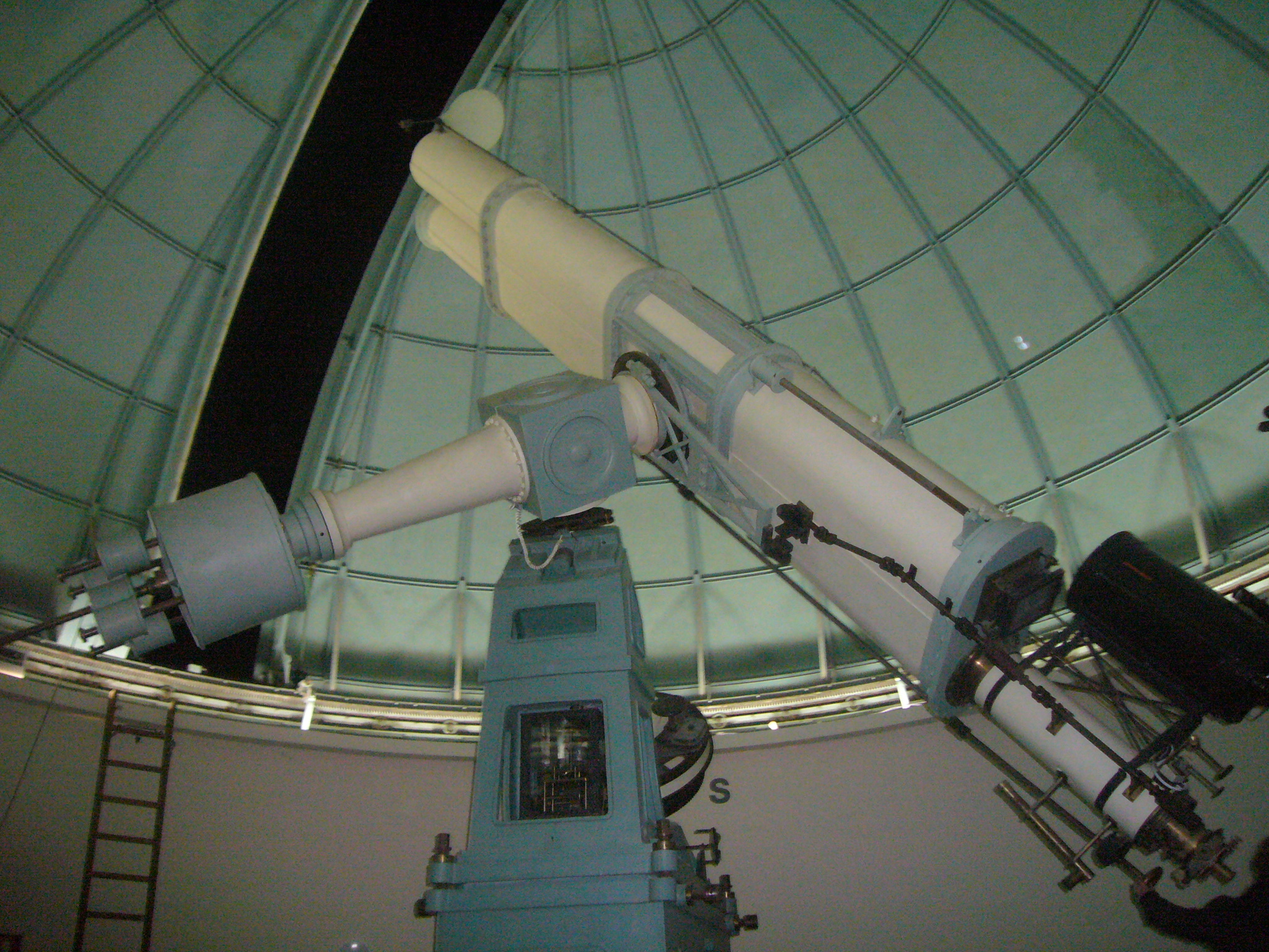 Mailhat refracting telescope with diameter of 38 cm (year 1904) at the Fabra Observatory in Barcelona